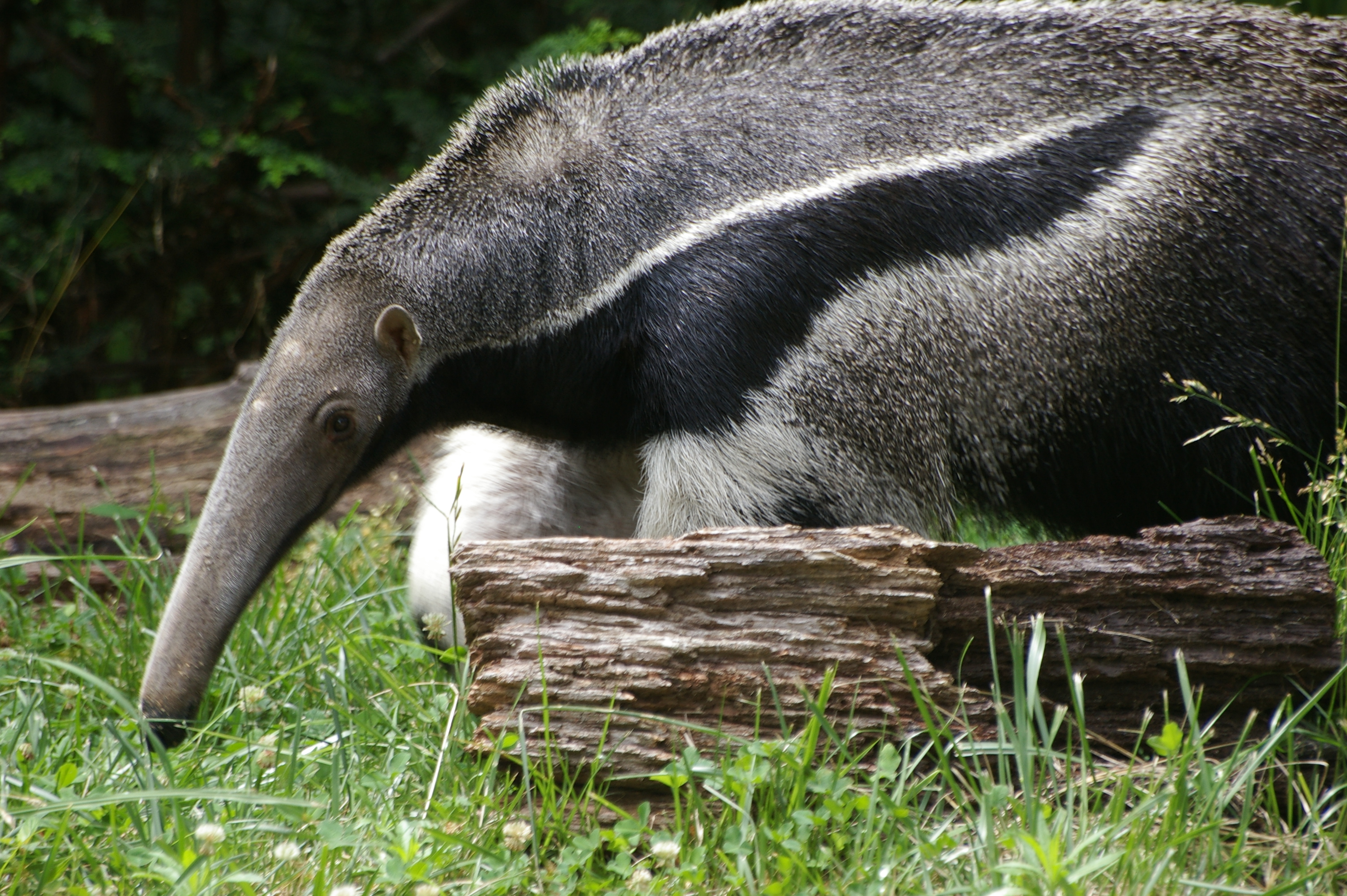 A giant anteater's black stripe is beautiful.